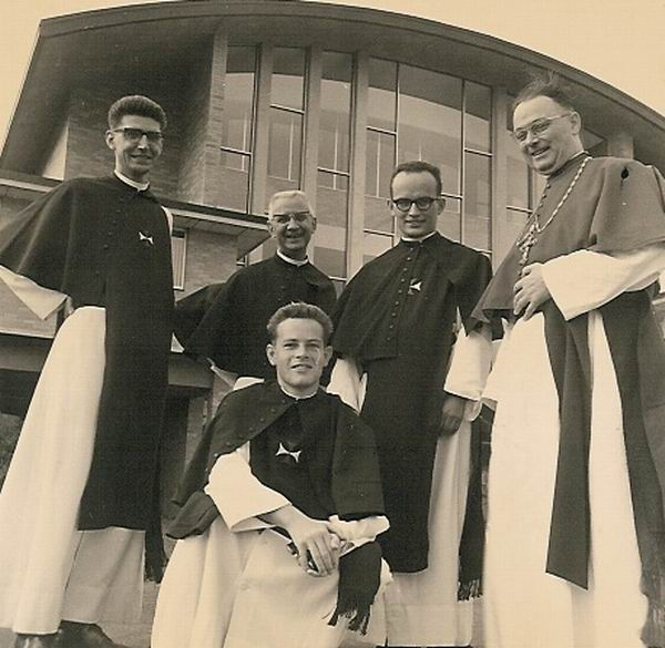 From Family Photo Collection. No Copyright.